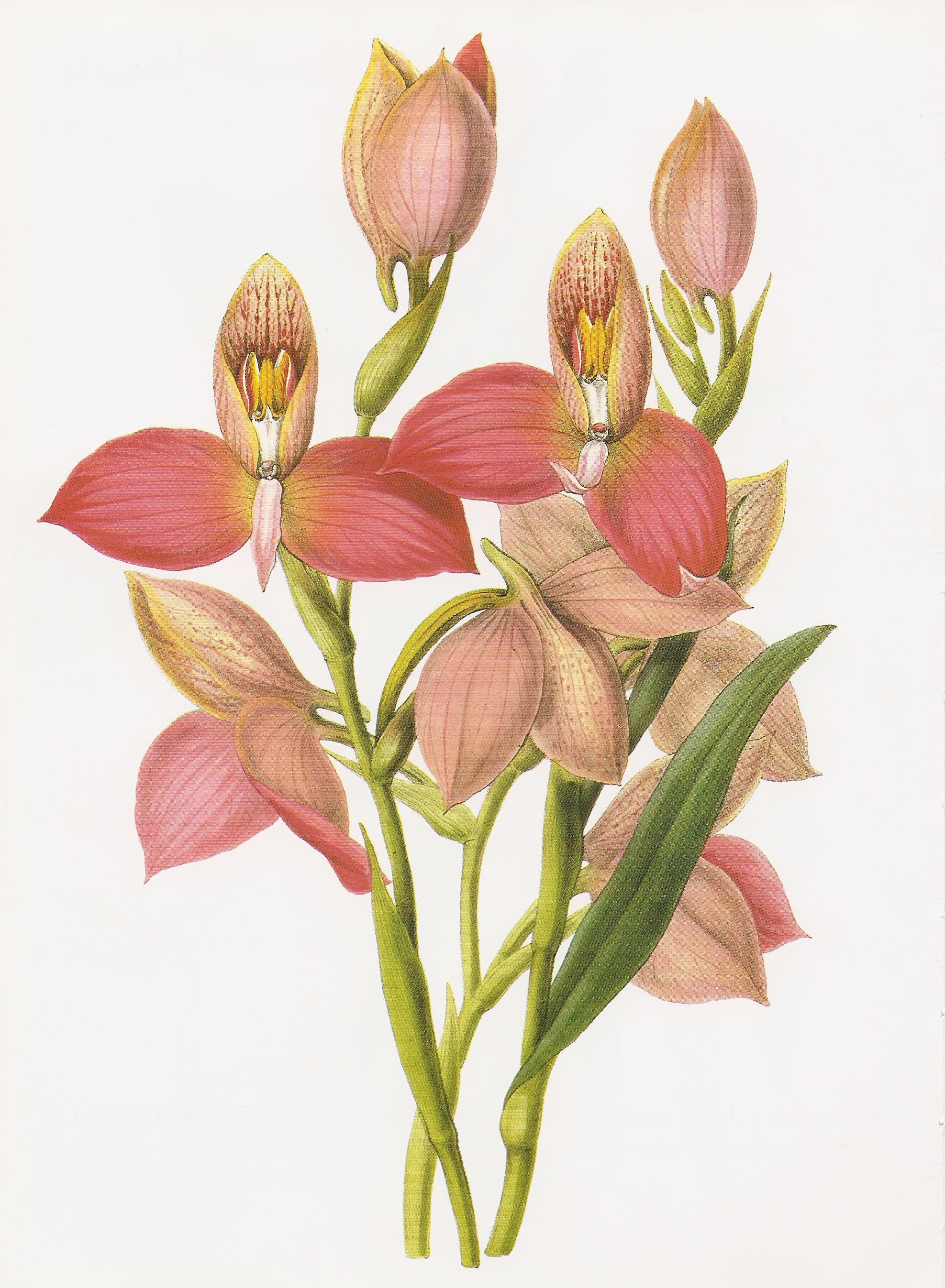 Disa uniflora (as syn. Disa grandiflora), a hand-coloured engraving after a drawing by Miss S. A. Drake (fl. 1820s-1840s), pl. 49 from John Lindley's (1799-1865): "Sertum Orchidaceum" (1838-1841)